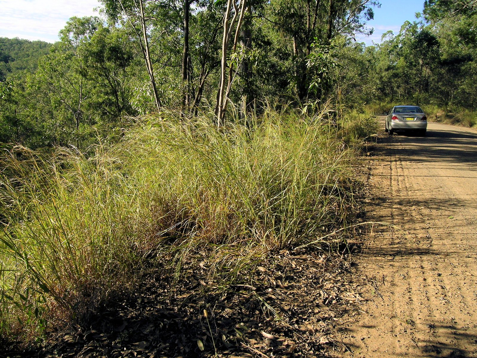 Native, warm-season, perennial, tufted, short-lived (2-5 years) grass to 1.5 m tall (usually less than 1 m). Most commonly found in native pastures of woodlands and open forests that are periodically burnt and where rainfall is less than 1000mm. One of the more productive grasses on low fertility soils. Quickly produces good quantities of soft leaf for the hard conditions in which it grows, but quality drops off at flowering.